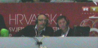 Zlatko Saračević (left) and co-commentator